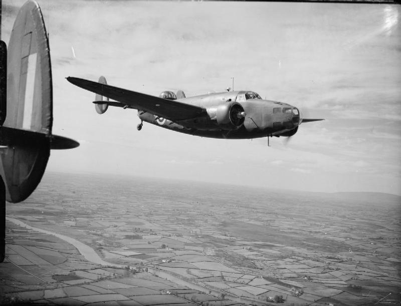 American Aircraft in RAF Service 1939-1945- Lockheed L-214 and L-414 Hudson. Hudson Mark II, T9376 ‘ZS-X’, of No. 233 Squadron RAF, returning to its base at Aldergrove, County Antrim, from a convoy patrol. The aircraft is equipped with ASV Mark 1 radar